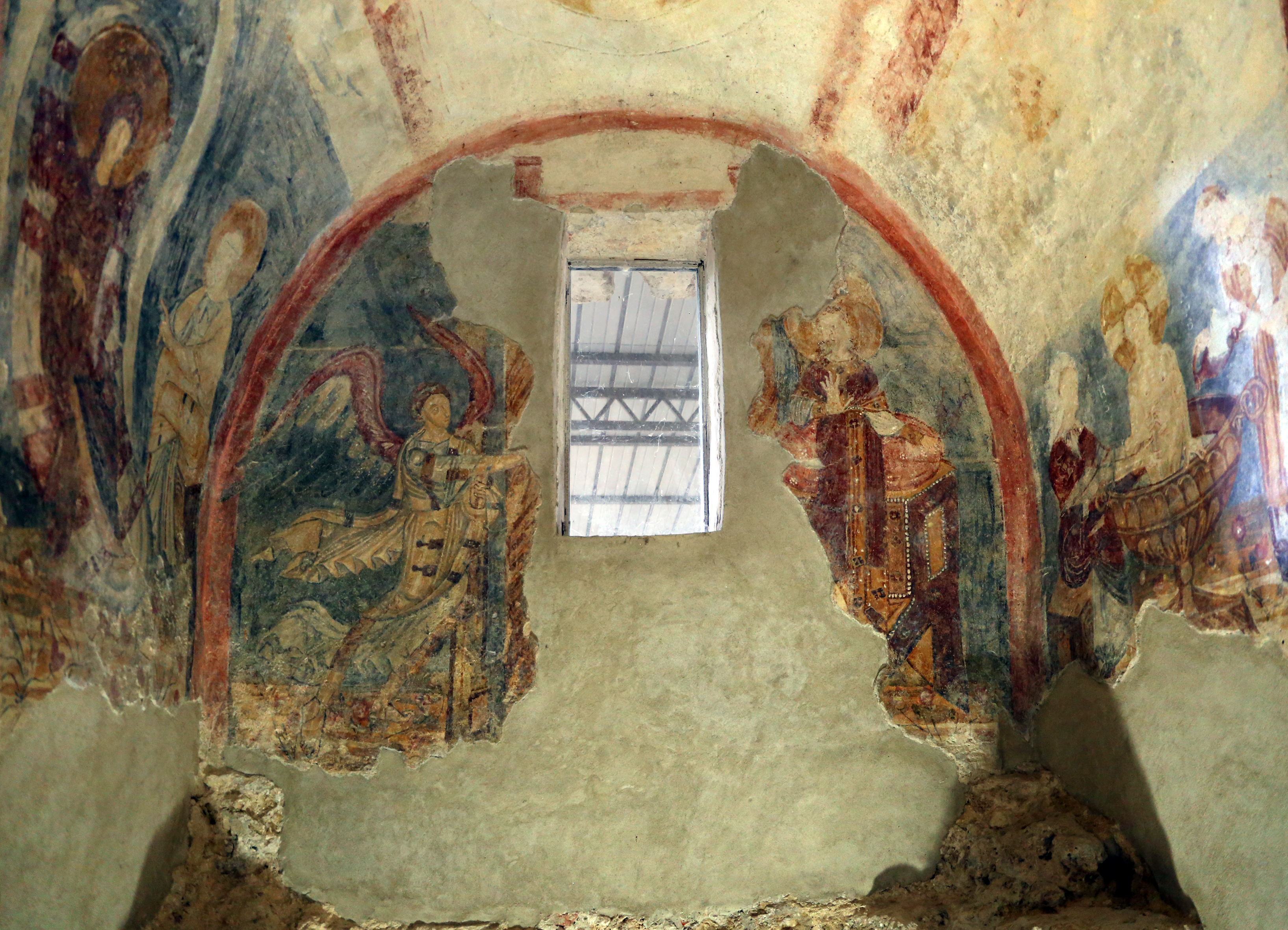 Epifanio Crypt